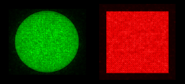 Intensity shapes examples after use of diffractive homogenizer with coherent beam.png